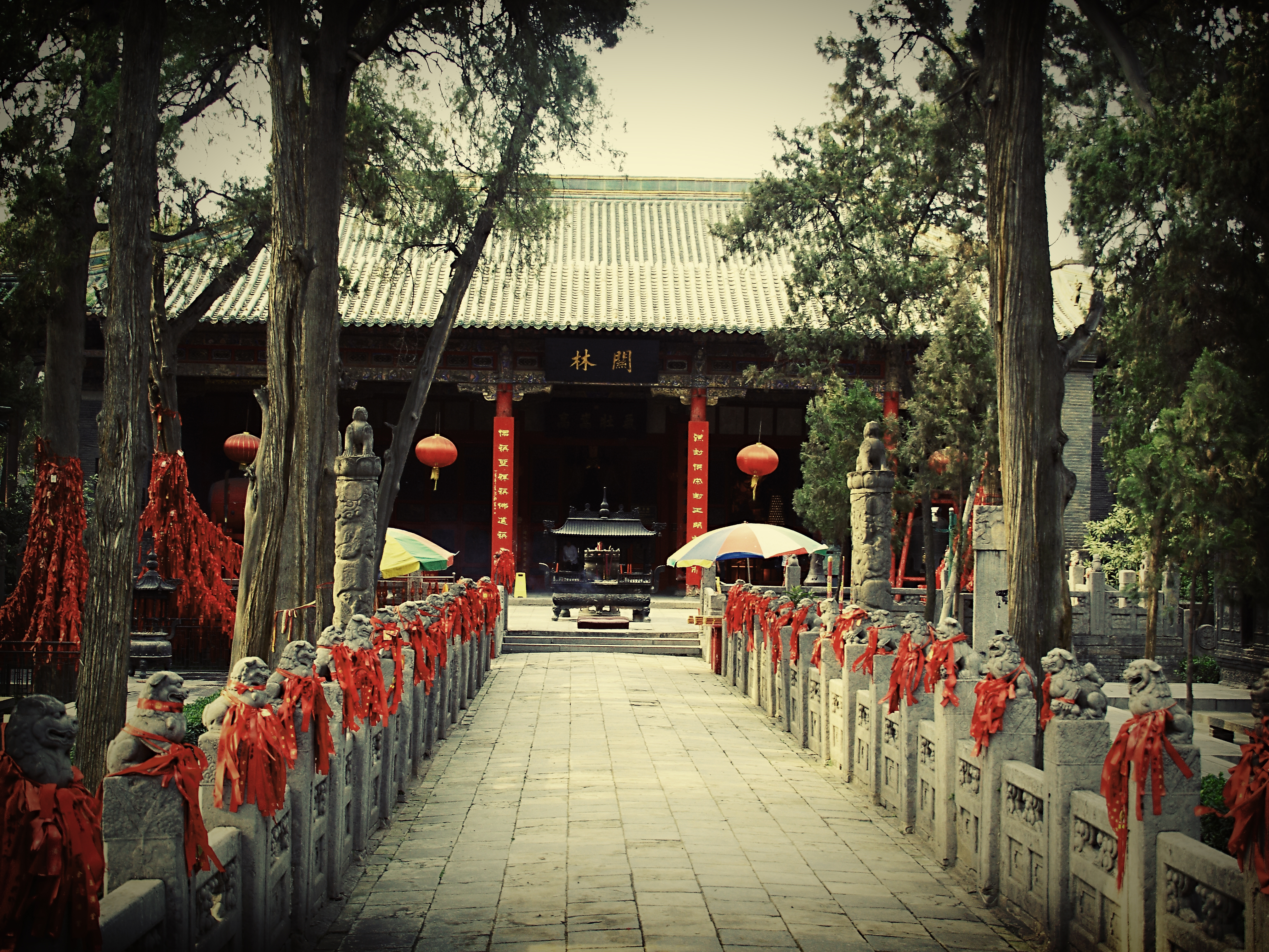 Guanlin Temple which is said to be the burial place of Guan Yu's head. Guan Yu was a prominent general of the Shu Kingdom in the Three Kingdoms Period.